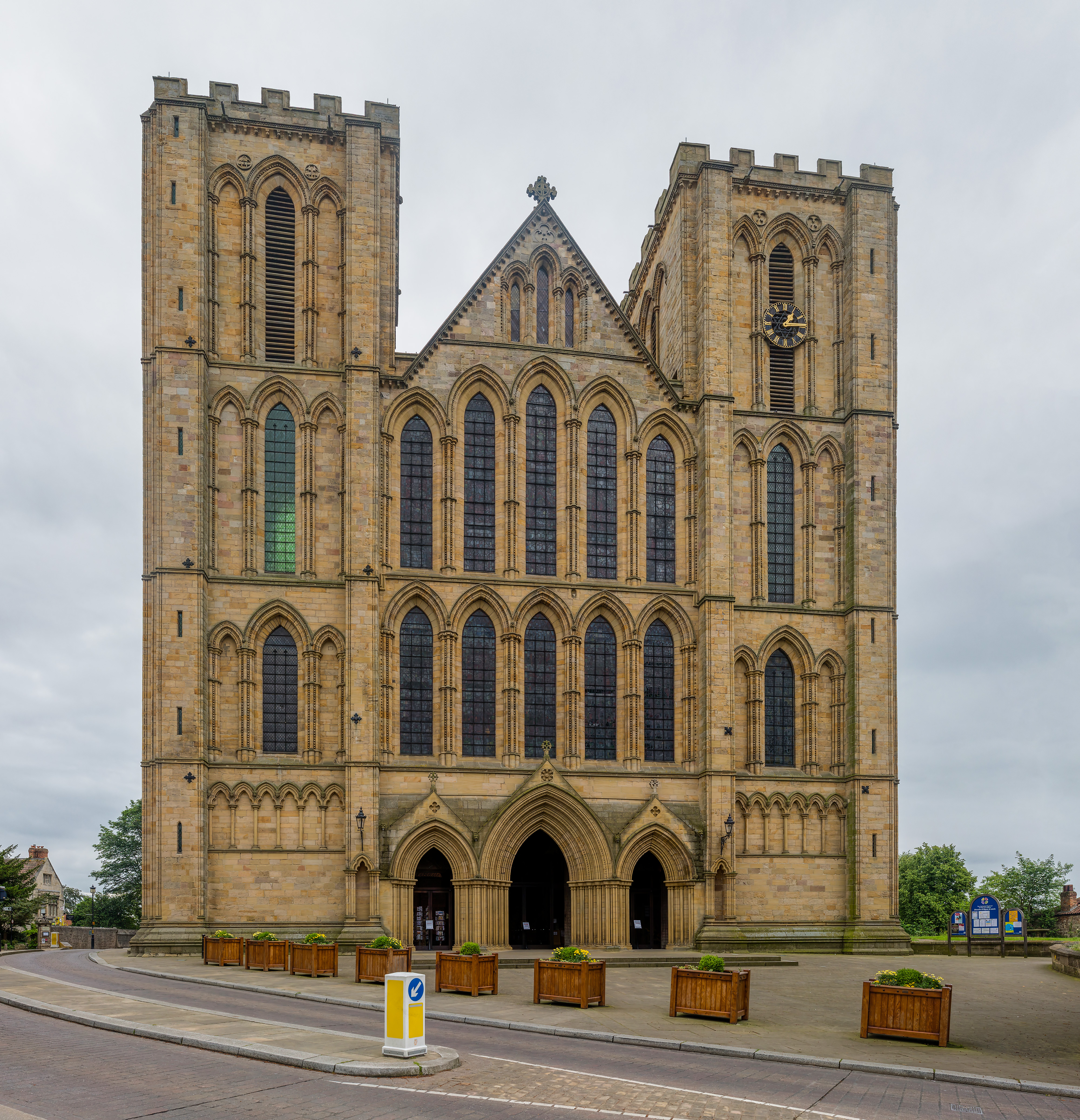 Ripon Cathedral's western facade as viewed from Minster Rd in North Yorkshire, England.